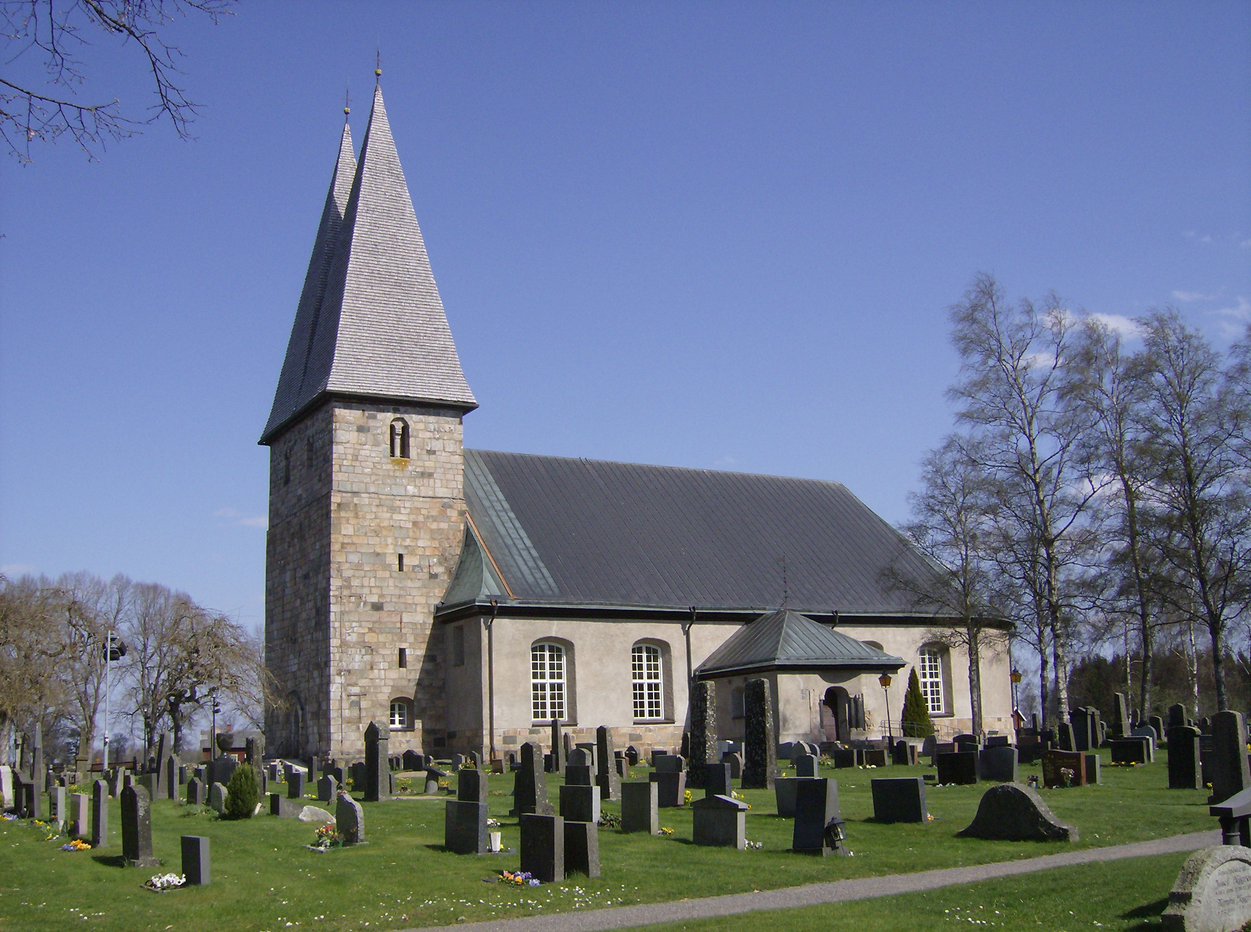 Rydamolms church